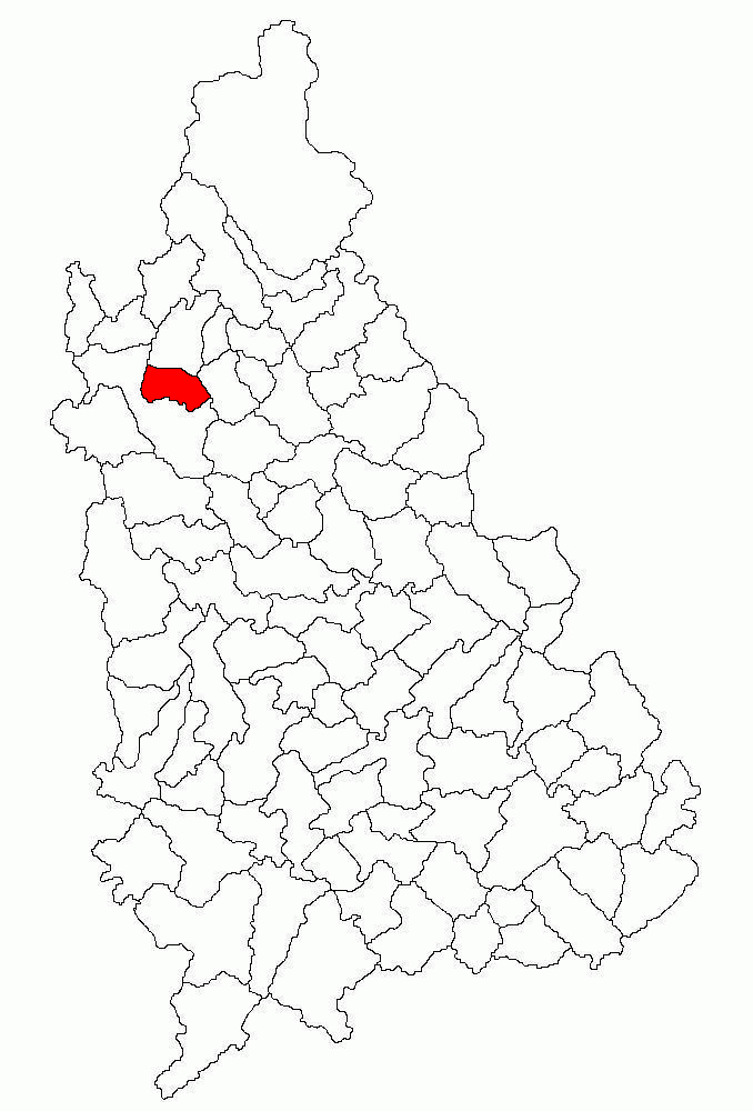 Location map of Pietrari Commune in Dambovita County, Romania